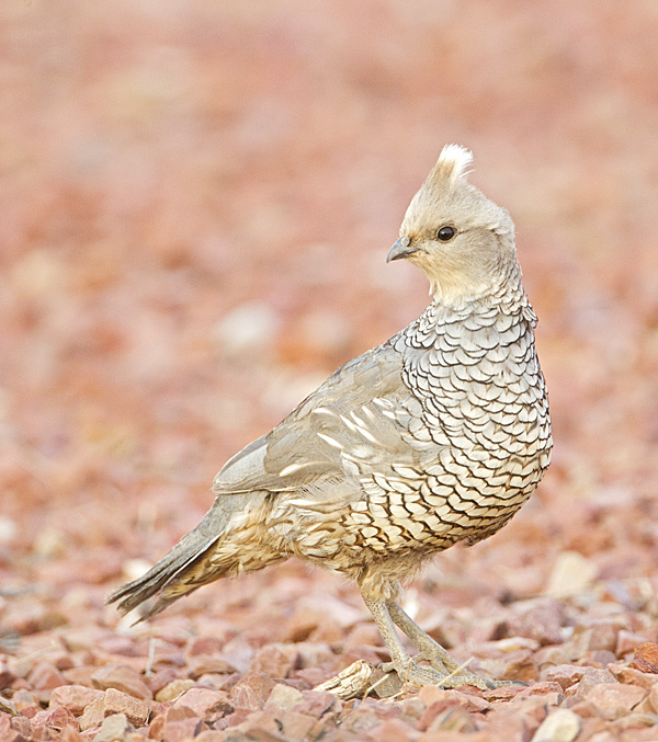 Scaled Quail